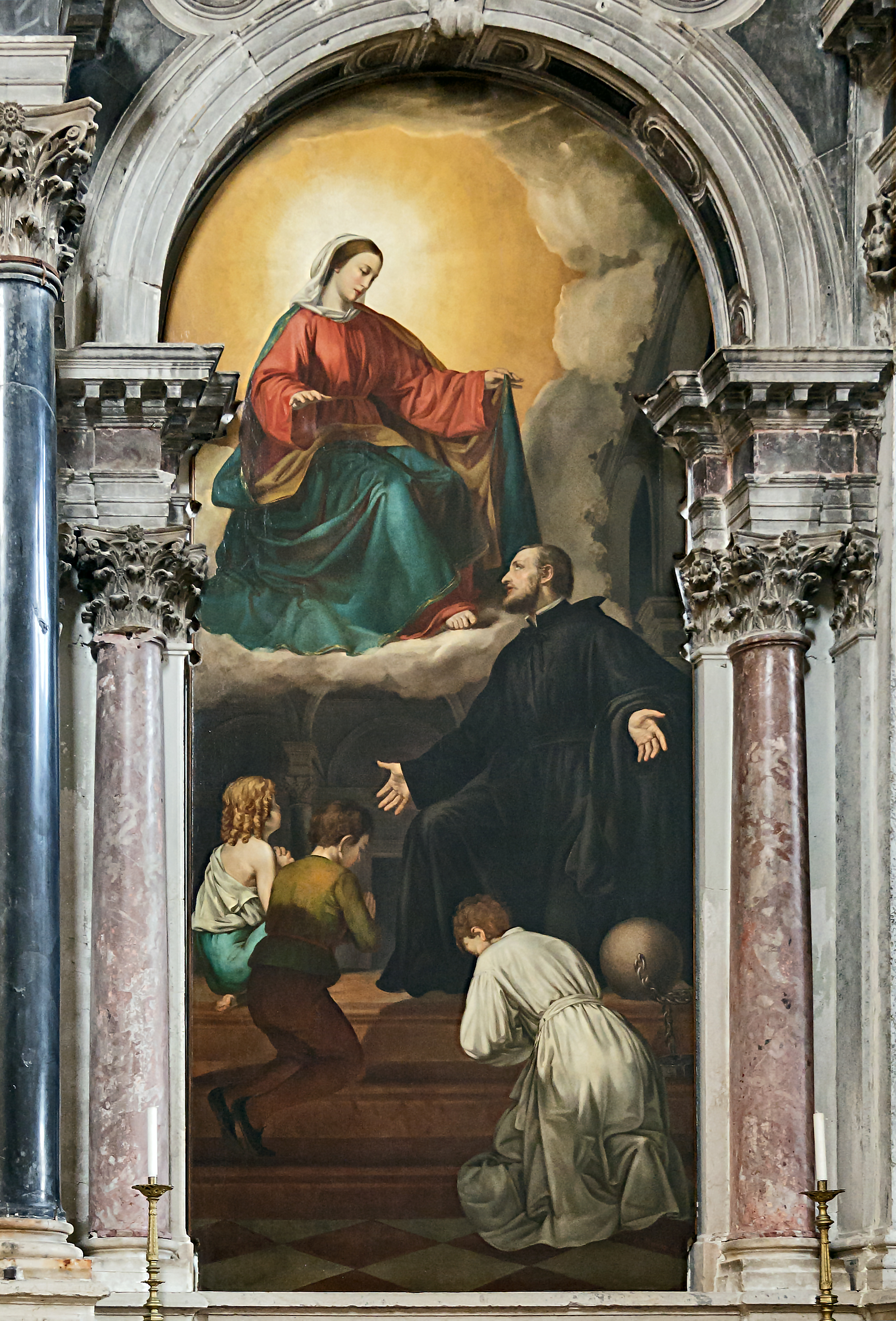 Santa Maria della Visitazione in Venice. Jerome Emiliani (or Miani) entrusting his orphans to the Blessed Virgin by Alessandro Revera, on the altar on the right side.